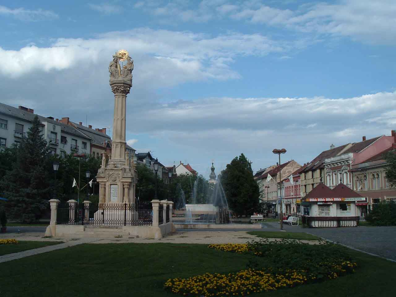 The Main Square in Szombathely, Hungary